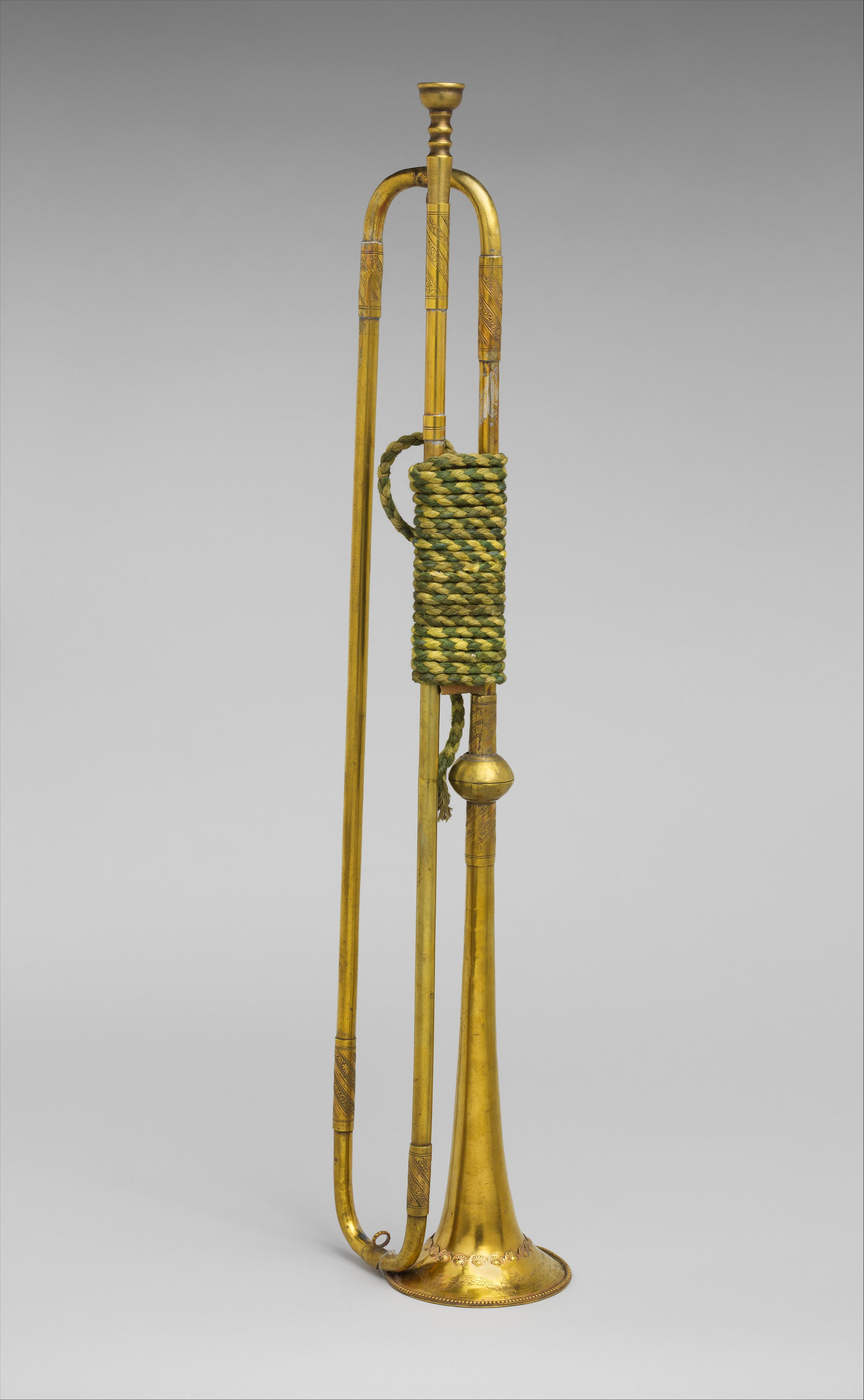 German; Natural Trumpet; Aerophone-Lip Vibrated